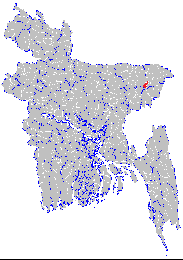 Location of Osmani Nagar in Bangladesh